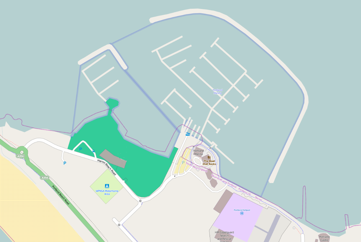 Weymouth and Portland National Sailing Academy Map This map may be incomplete, and may contain errors. Don't rely solely on it for navigation.